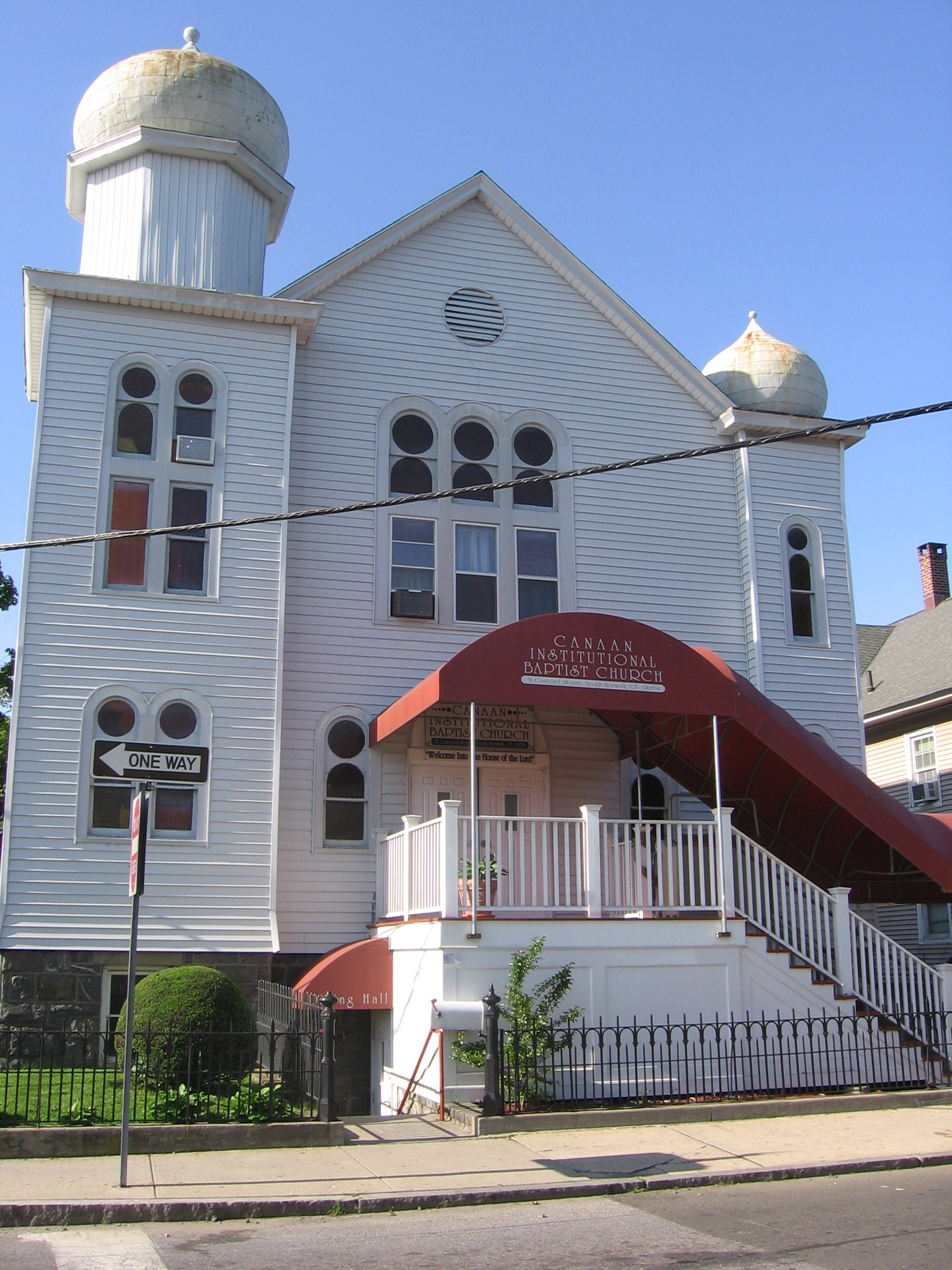 This building was built in 1906 as an Orthodox Synagogue. View is looking south across Concord Street.